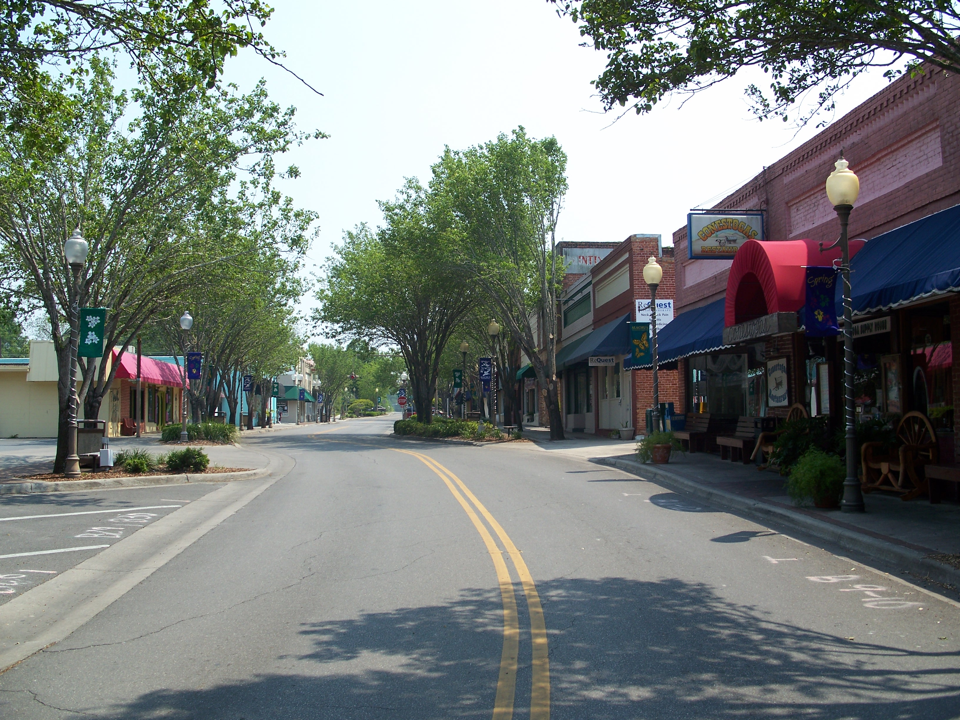 View of Main Street in the City of Alachua Downtown Historic District. The district is on the National Register of Historic Places